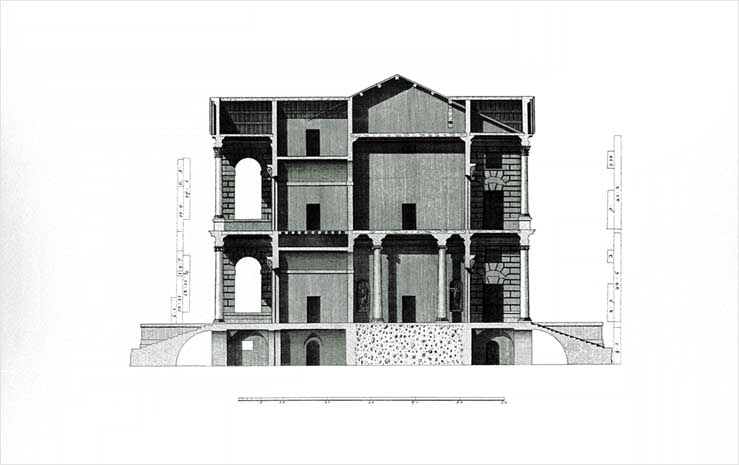 Villa Cornaro in Piombino Dese, province of Padua, designed by Andrea Palladio in 1552. Drawing from Ottavio Bertotti Scamozzi, 1781.